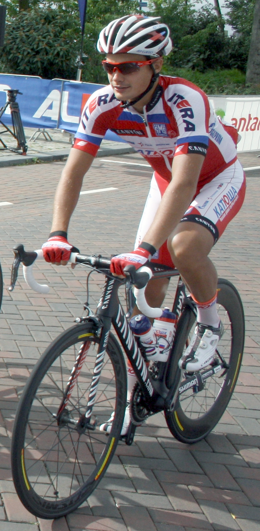 Maksim Razumov before the start of stage 2 of the World Ports Classic 2013